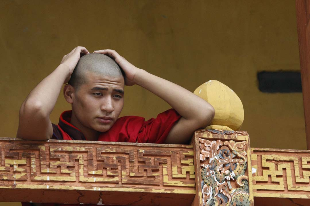 Bhutan: Deep Thoughts